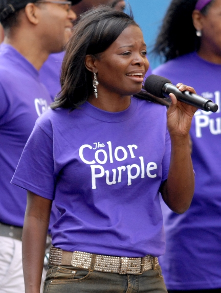 LaChanze and the cast of The Color Purple performs "The Color Purple" at Broadway on Broadway, 10 September 2006.